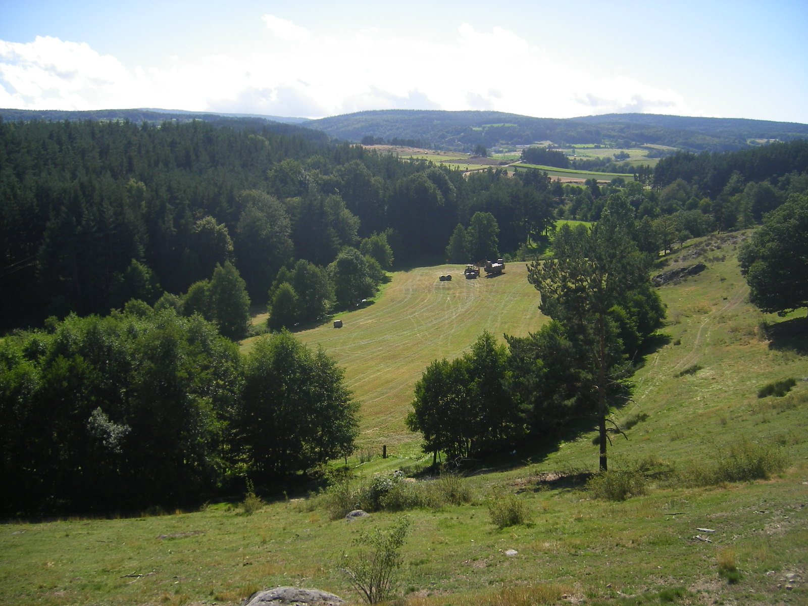 Landscape east from Saugues (Margeride) - route D589